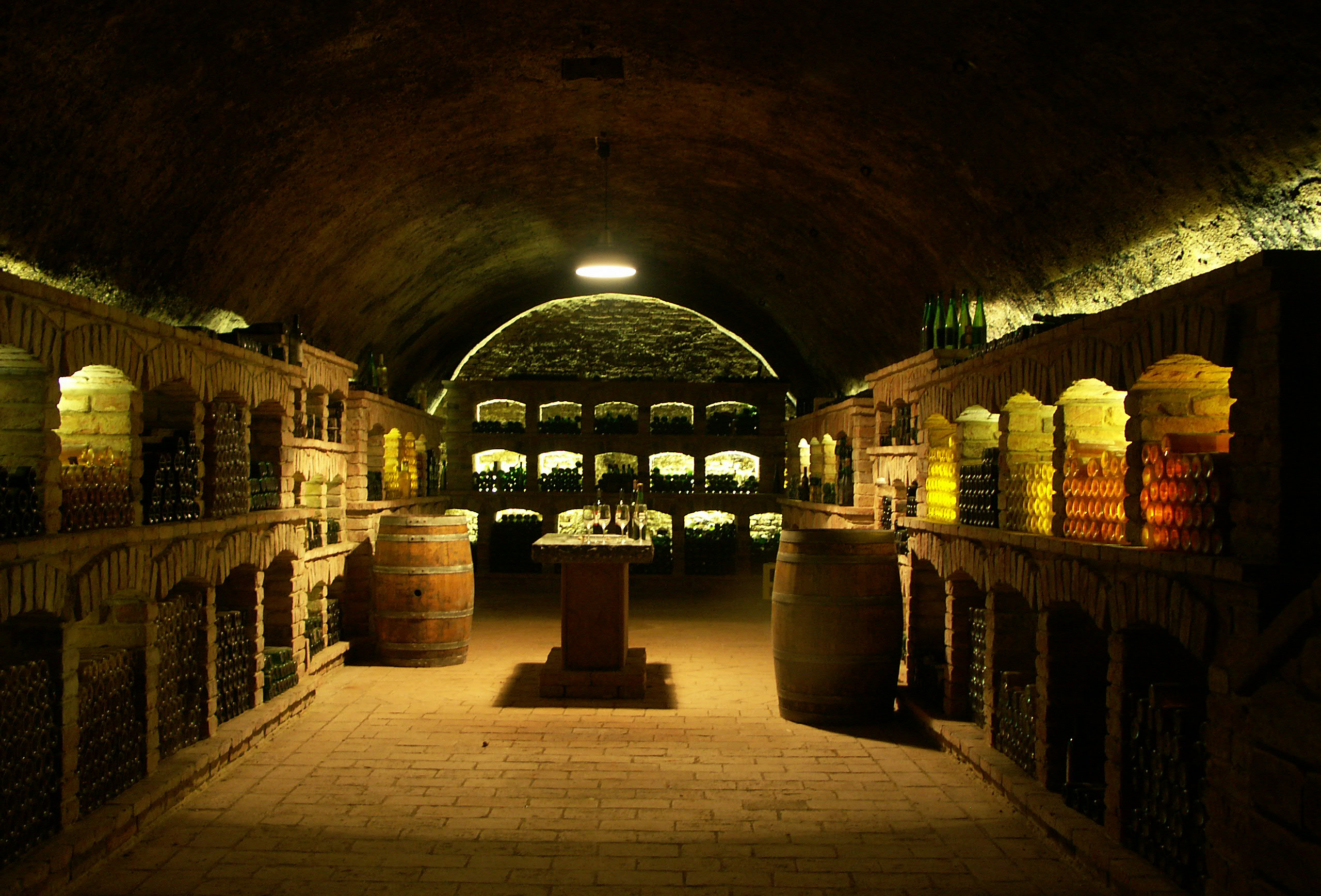 ine cellar in Gols